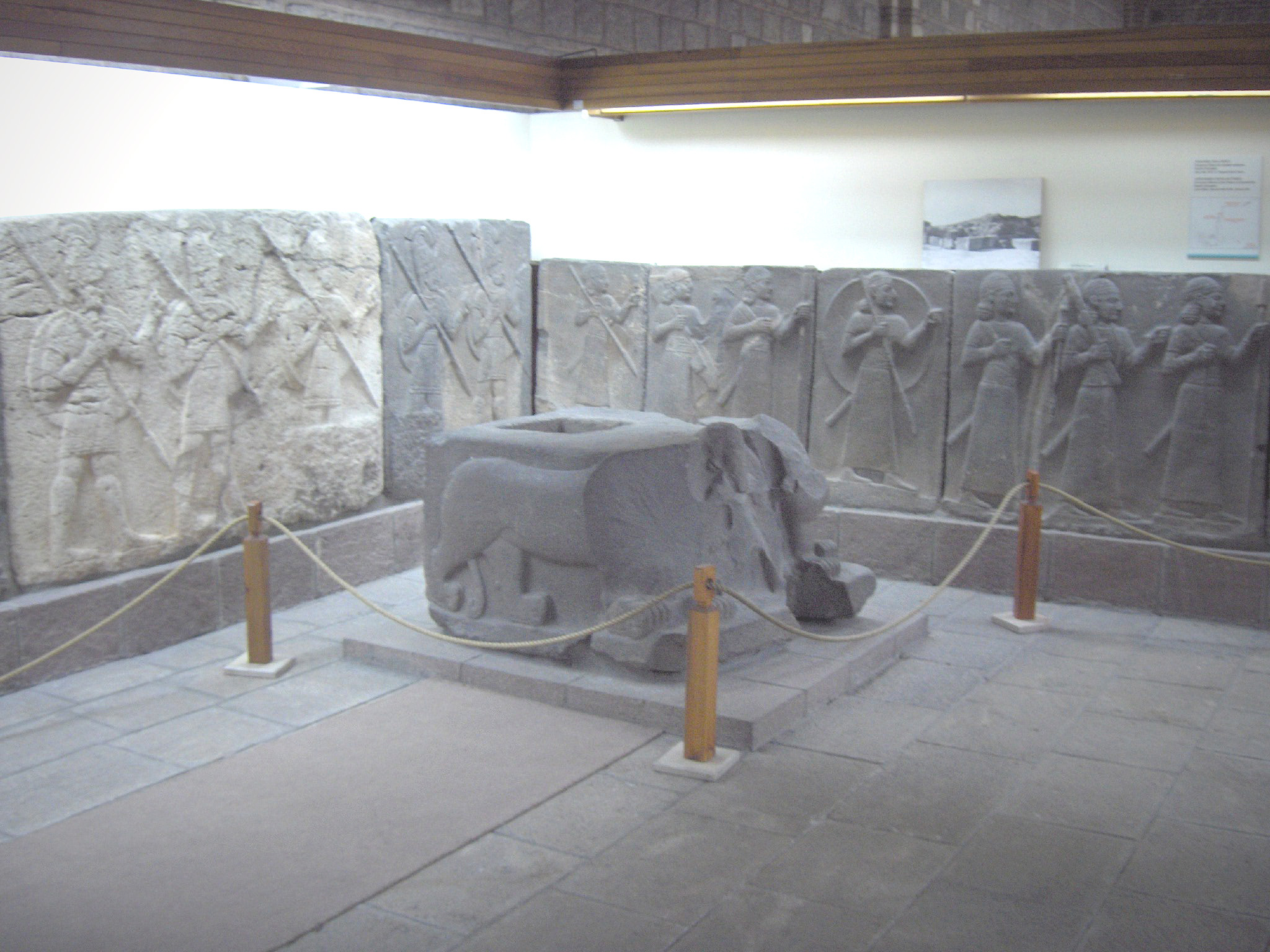 Soldiers from Carchemish; orthostat relief; second half of 8th c. BC; Museum of Anatolian Civilizations, Ankara, Turkey